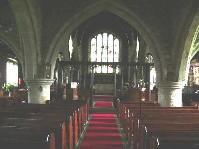 Interior of St Mary the Virgin, Gisburn